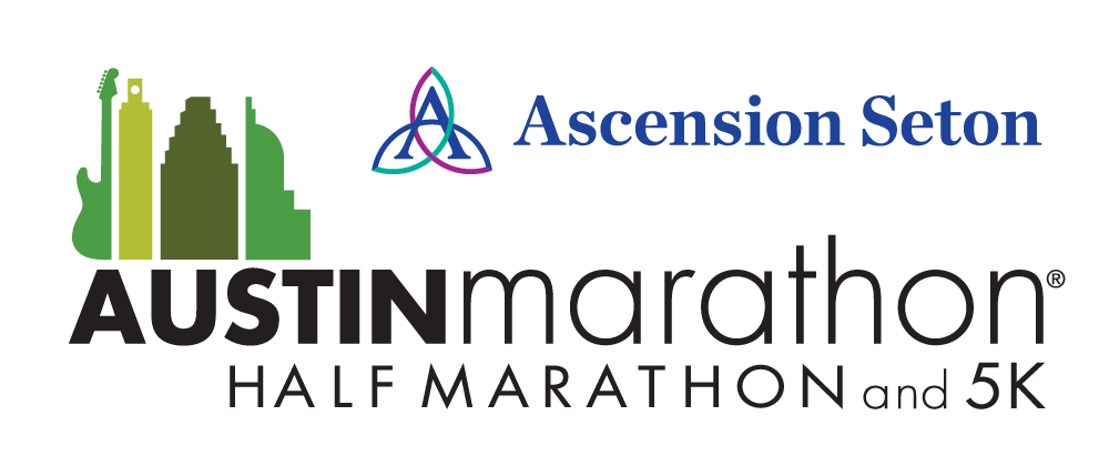 Ascension Seton Austin Marathon logo